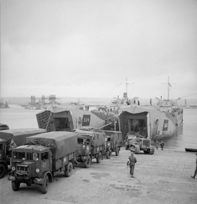 The British Army in the United Kingdom 1939-1945 Vehicles being loaded into LST 316 and LST 324 at Hardway, Gosport prior to the invasion of Europe a few days later.